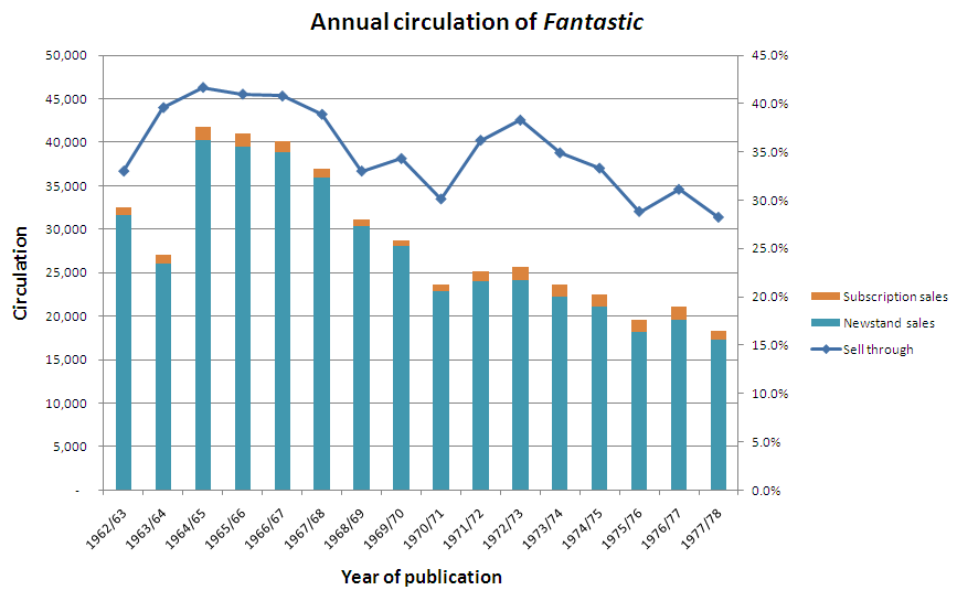 A graph showing circulation of Fantastic from 1962 through 1979. Source: Ashley, Mike (2007) Gateways to Forever, Liverpool: Liverpool University Press, pp. 481 ISBN: 978-1-84631-003-4.